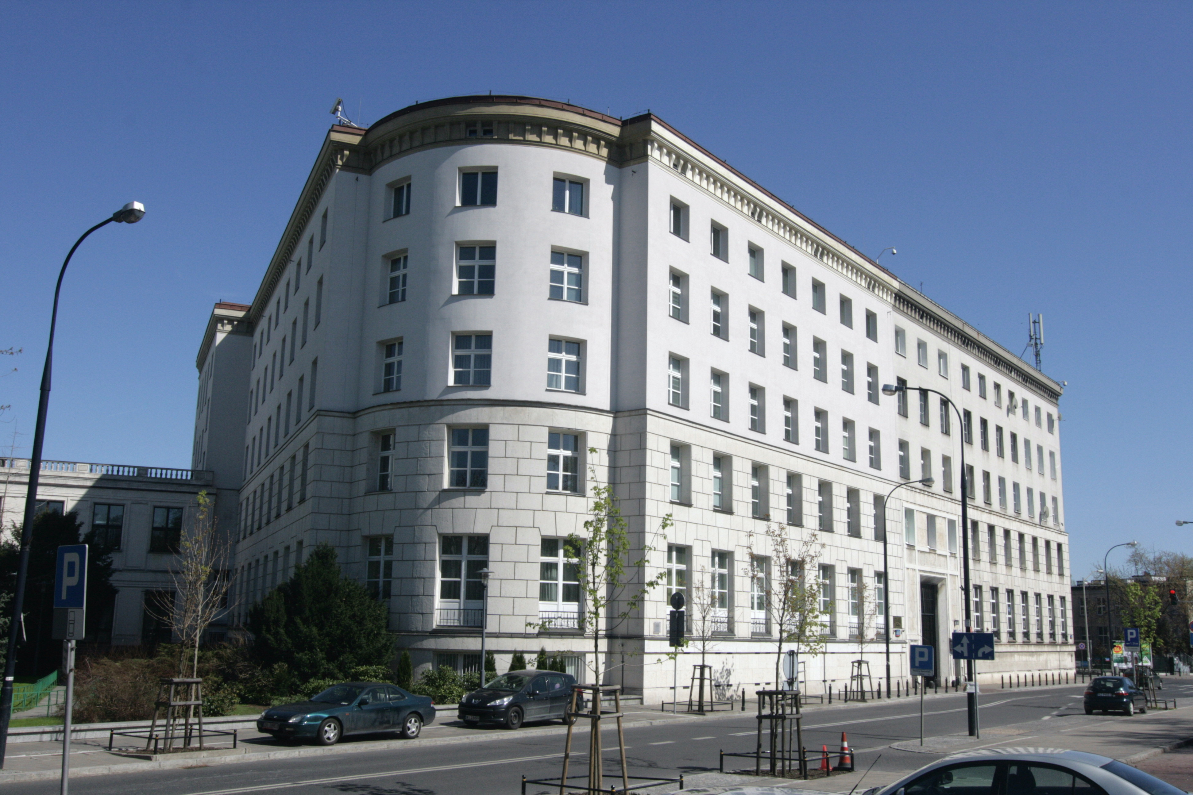 Stary Dom Poselki within the parliament buildings' complex at Wiejska Street in Warsaw